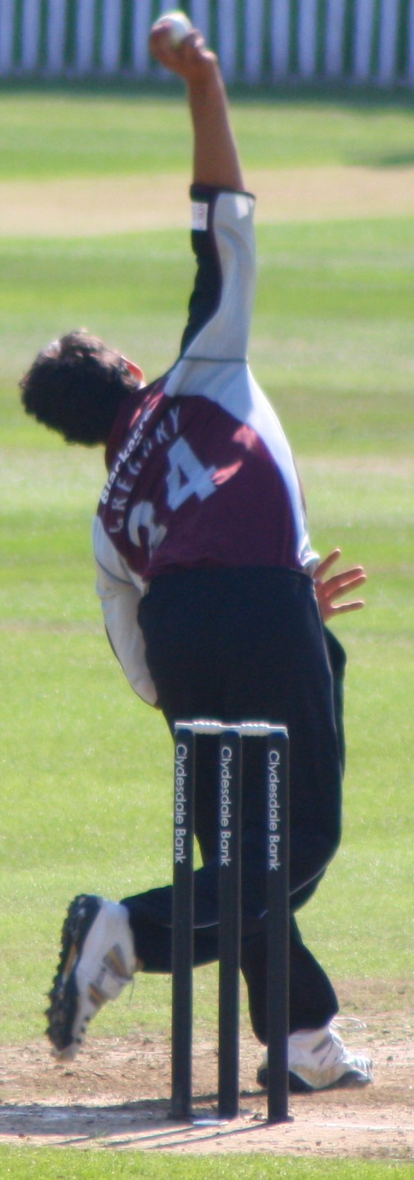 Lewis Gregory bowling for Somerset on his debut against the touring Pakistan cricket team at the County Ground, Taunton